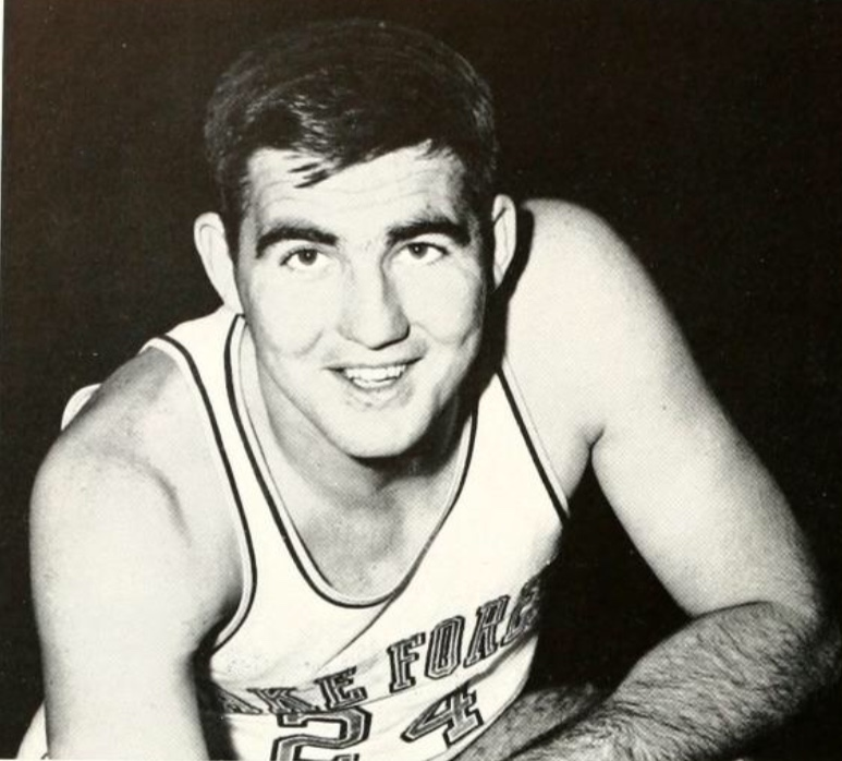 Wake Forest basketball player Dickie Hemric from the 1955 Howler yearbook.